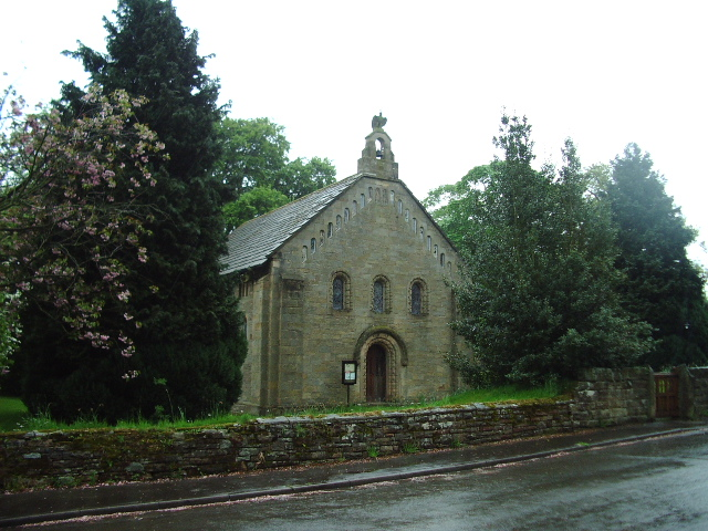 St Mary's parish church, Wreay, Cumbria, seen from the west